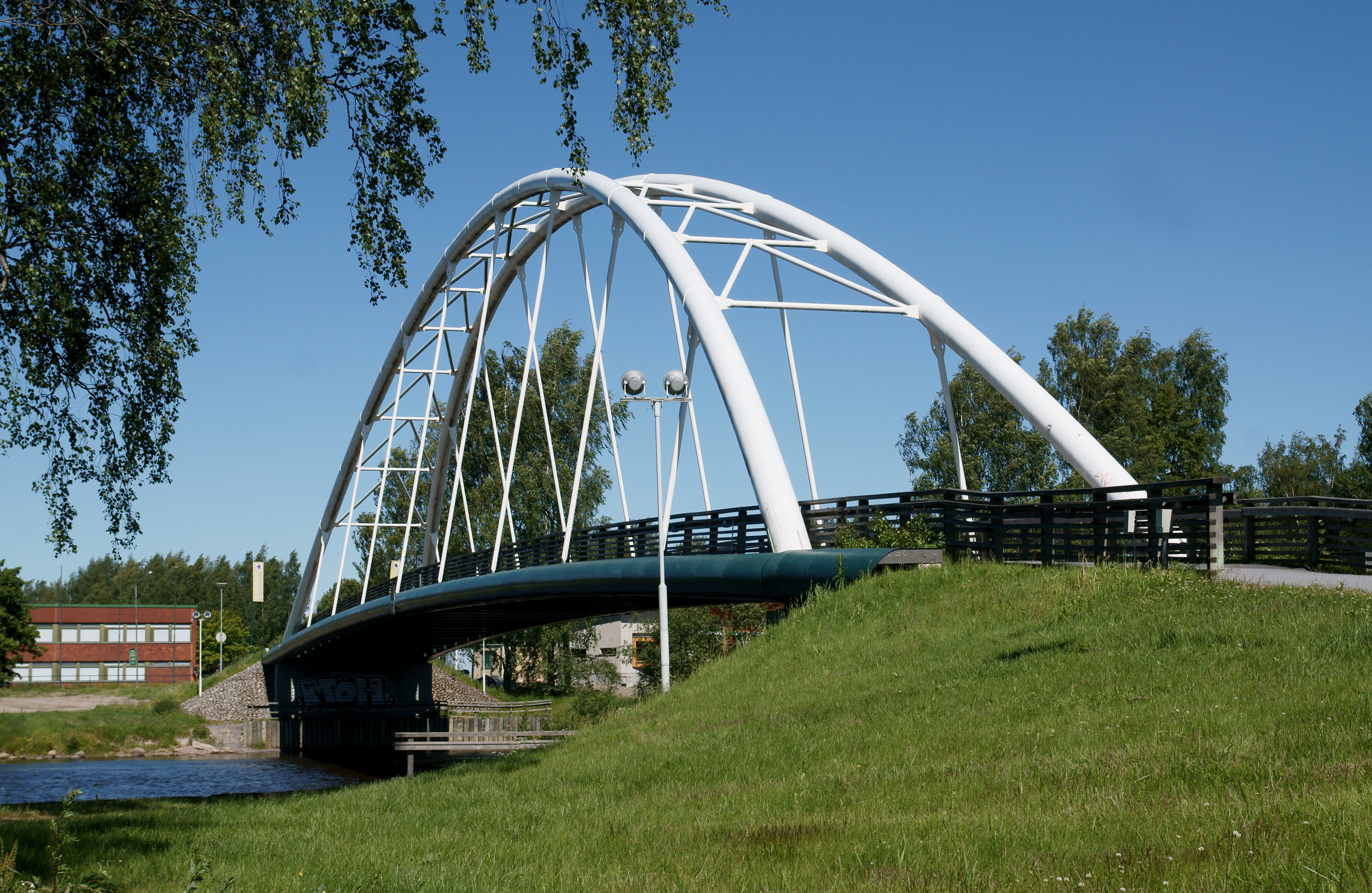 Pormestarinsilta bridge in Pori, Finland.